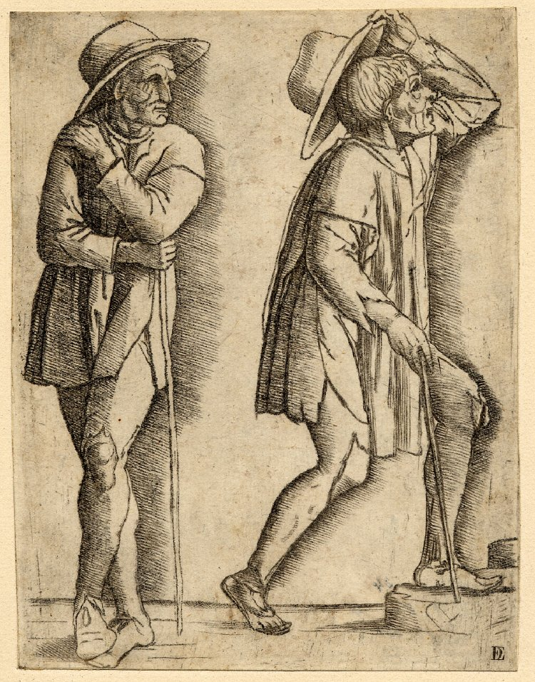 Engraving by Giovanni Antonio da Brescia, c. 1500-1519. British Museum